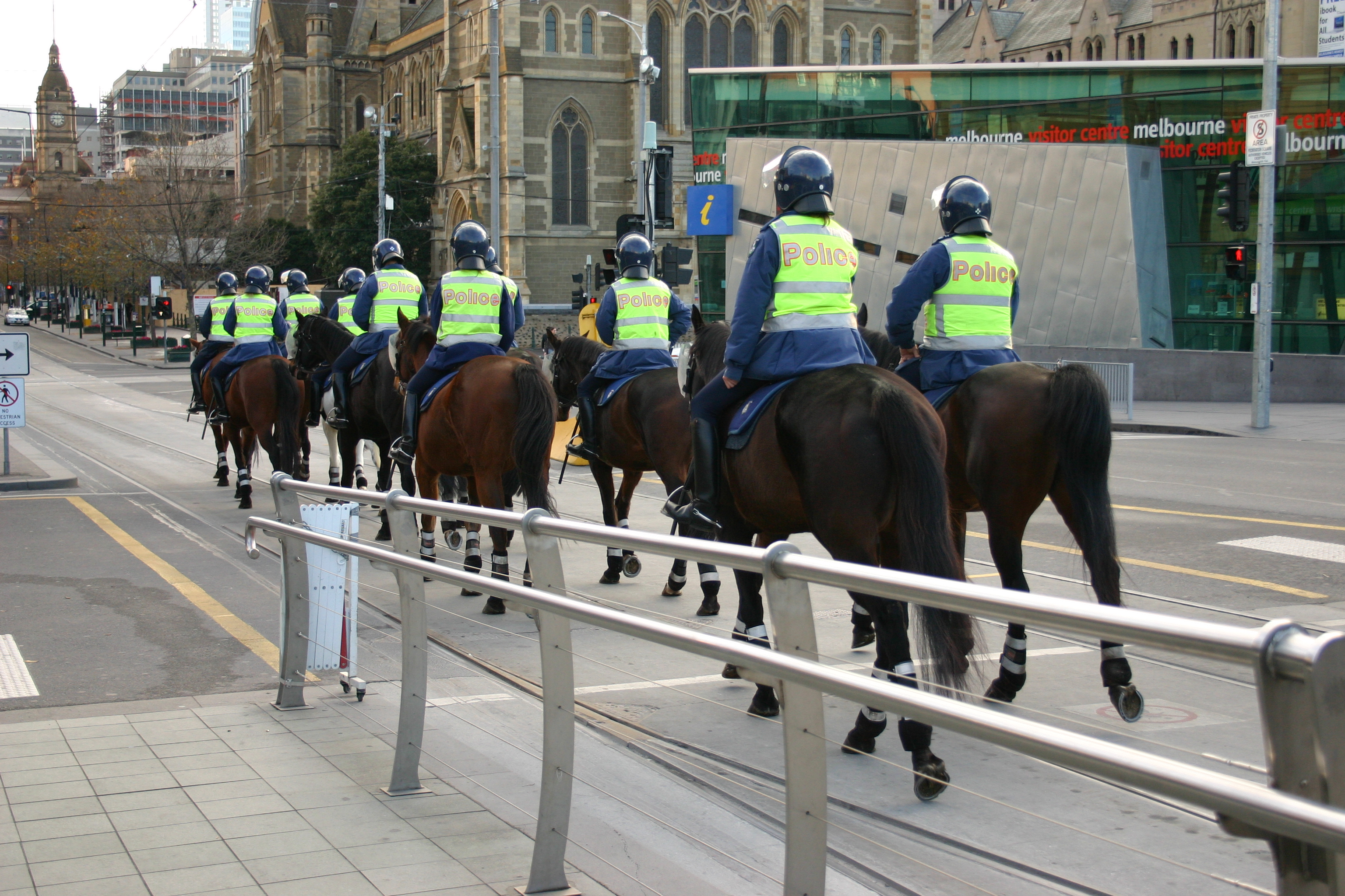 Mounted officers of the Victoria Police ride through the tram stop in front of Flinders Street Station